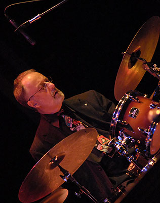 Drummer Terry Clarke